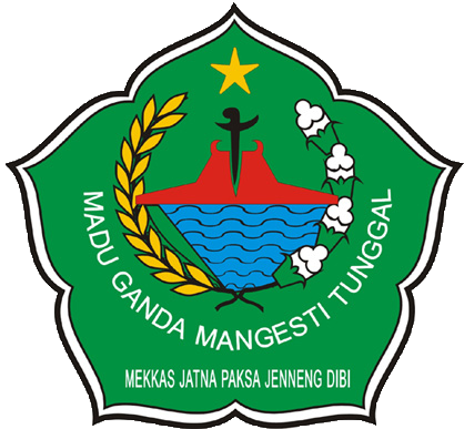 Coat of arms of Pamekasan, East Java Indonesia